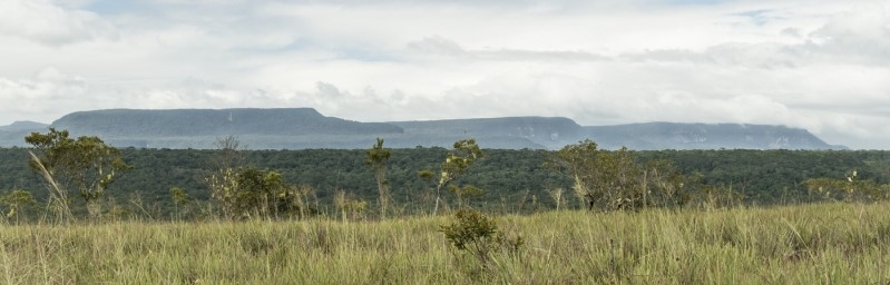 Massif of Waukauyengtipu photographed from the savannas around Uchii Falls in Guyana, photographed by M. Wrazidlo in January 2018